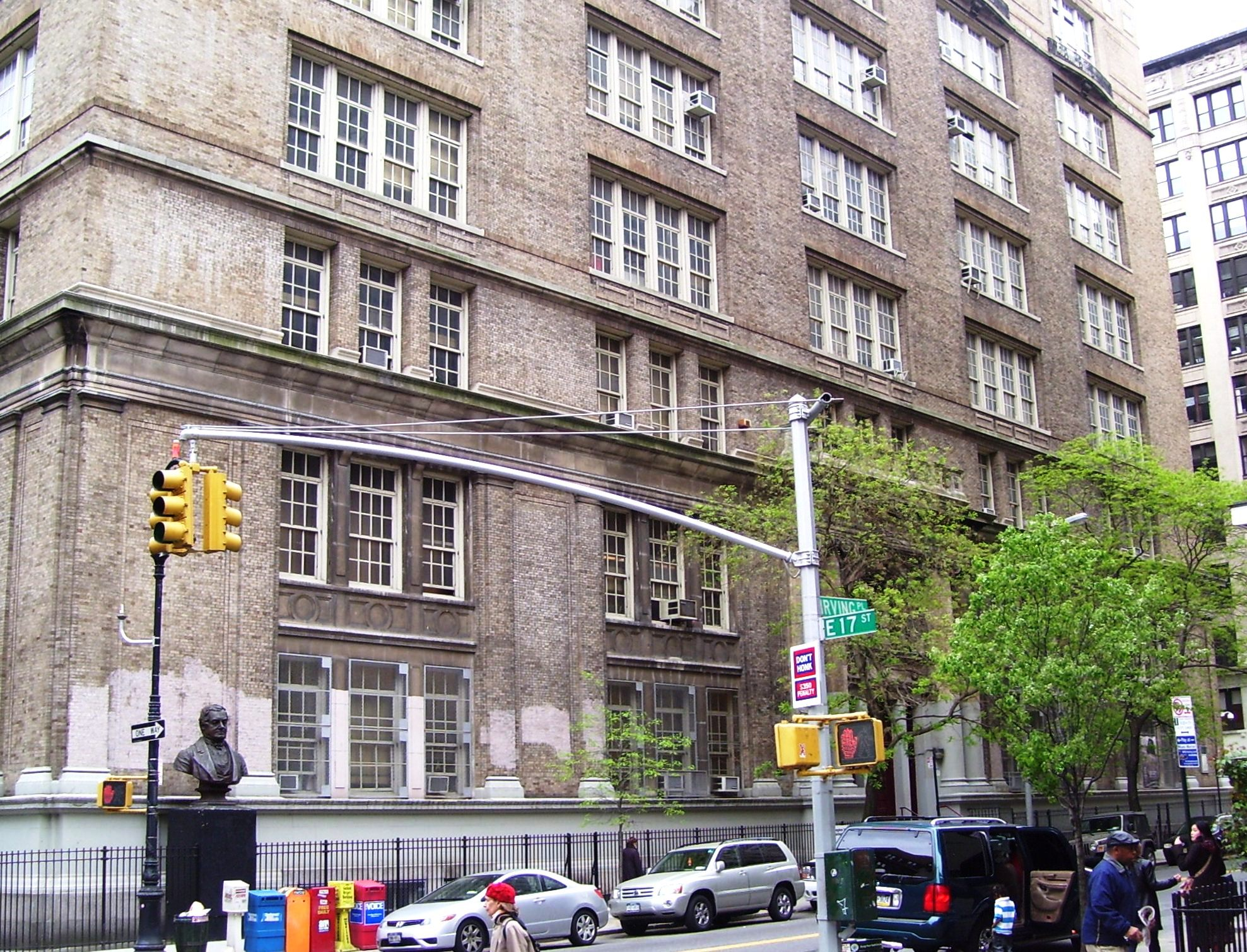 Washington Irving High School, on Irving Place, in Manhattan, New York City, moved to this location from Lafayette Street in 1912. The 1885 bust of Washington Irving – who never lived on Irving Place, although he did visit a nephew there – is by Friedrich Baer